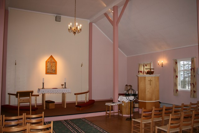 Mørsvikbotn chapel